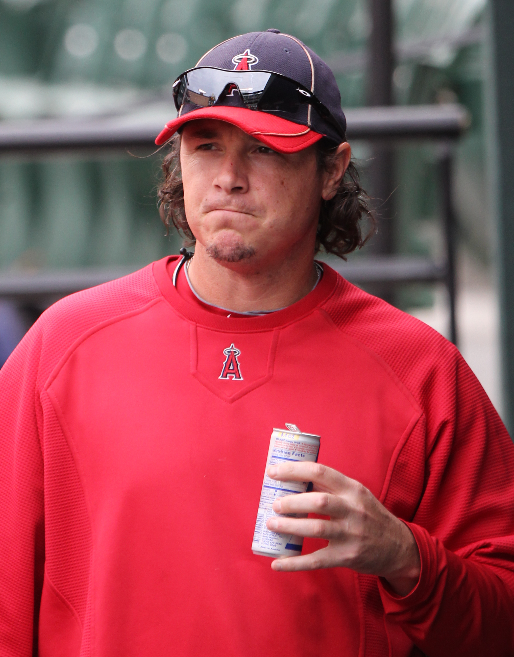 Scott Downs